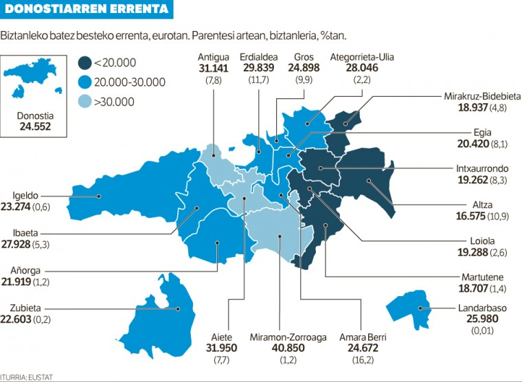 Infogram with the income of the donostiarras by neighborhoods (Sources: berria, Eustat)